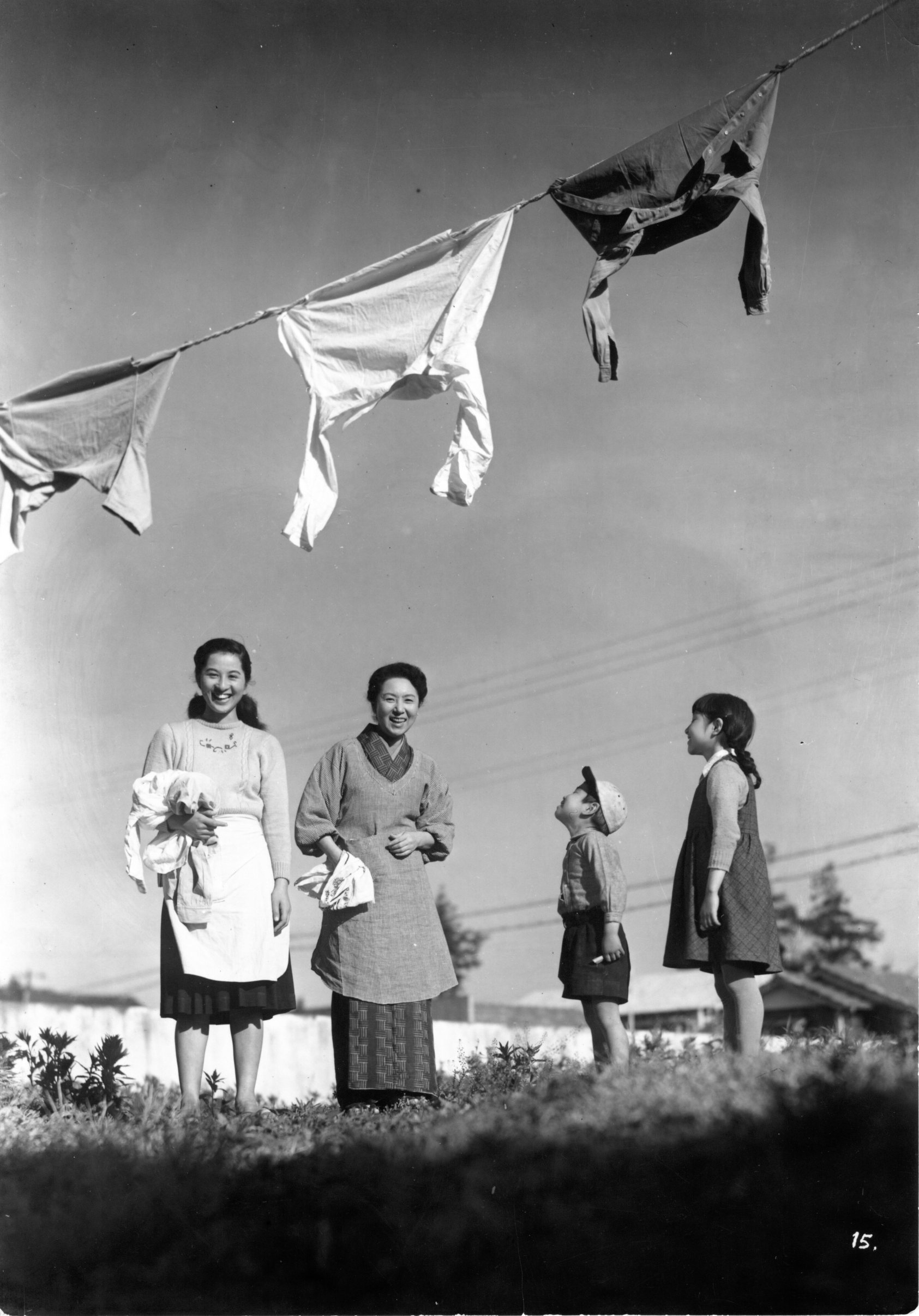 Kinuyo Tanaka, Kyōko Kagawa and children in 1952 Japanese movie Okasan(Mother）.